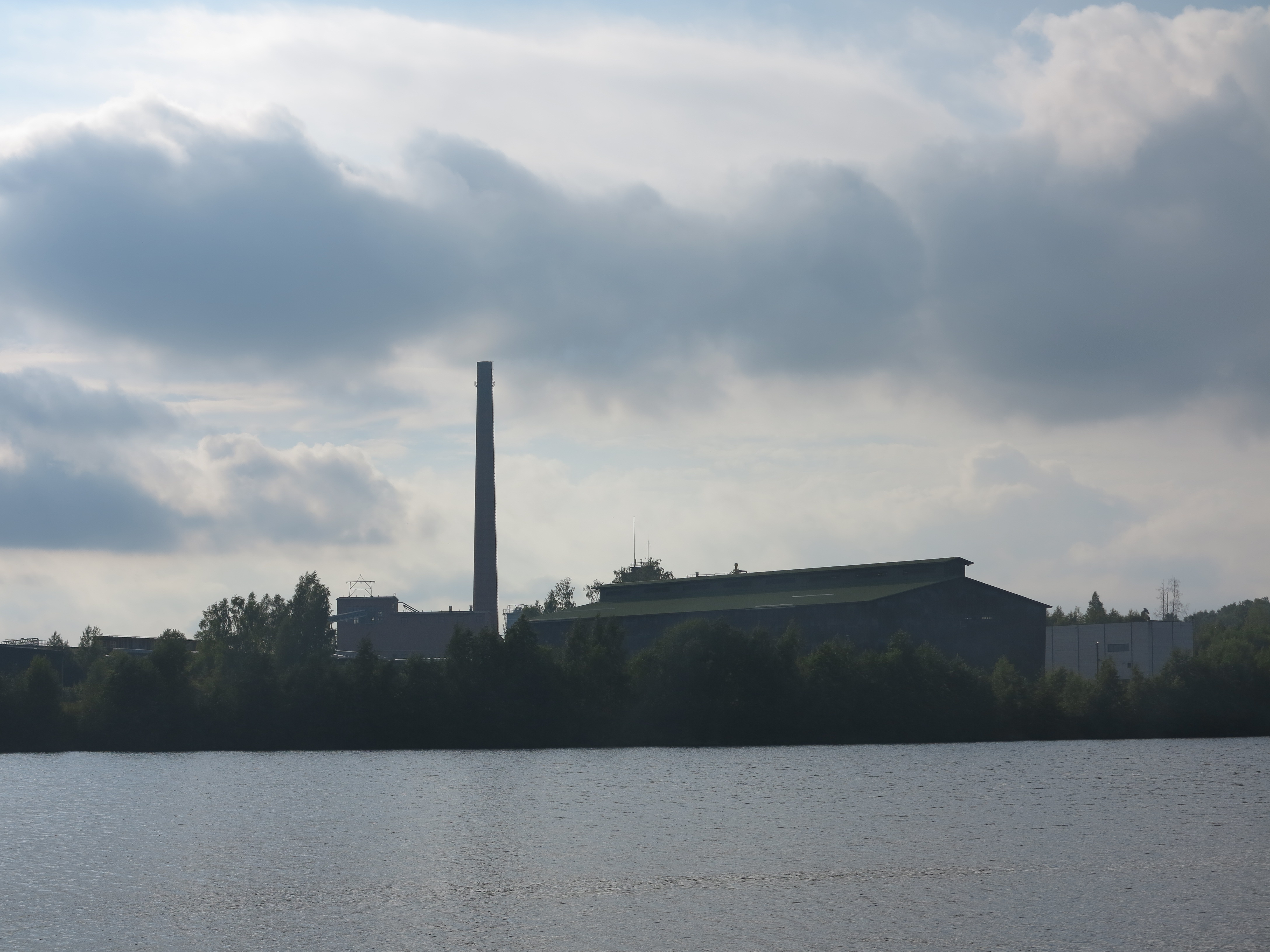 Plywood factory of UPM at Heinola, Finland